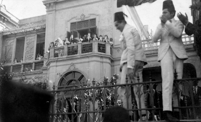 Cairo-Demonstrations1919